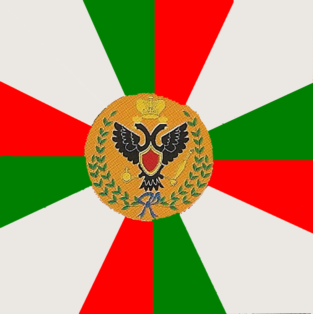 Ordonnance flag of Sofia Musketeer Regiment 1797